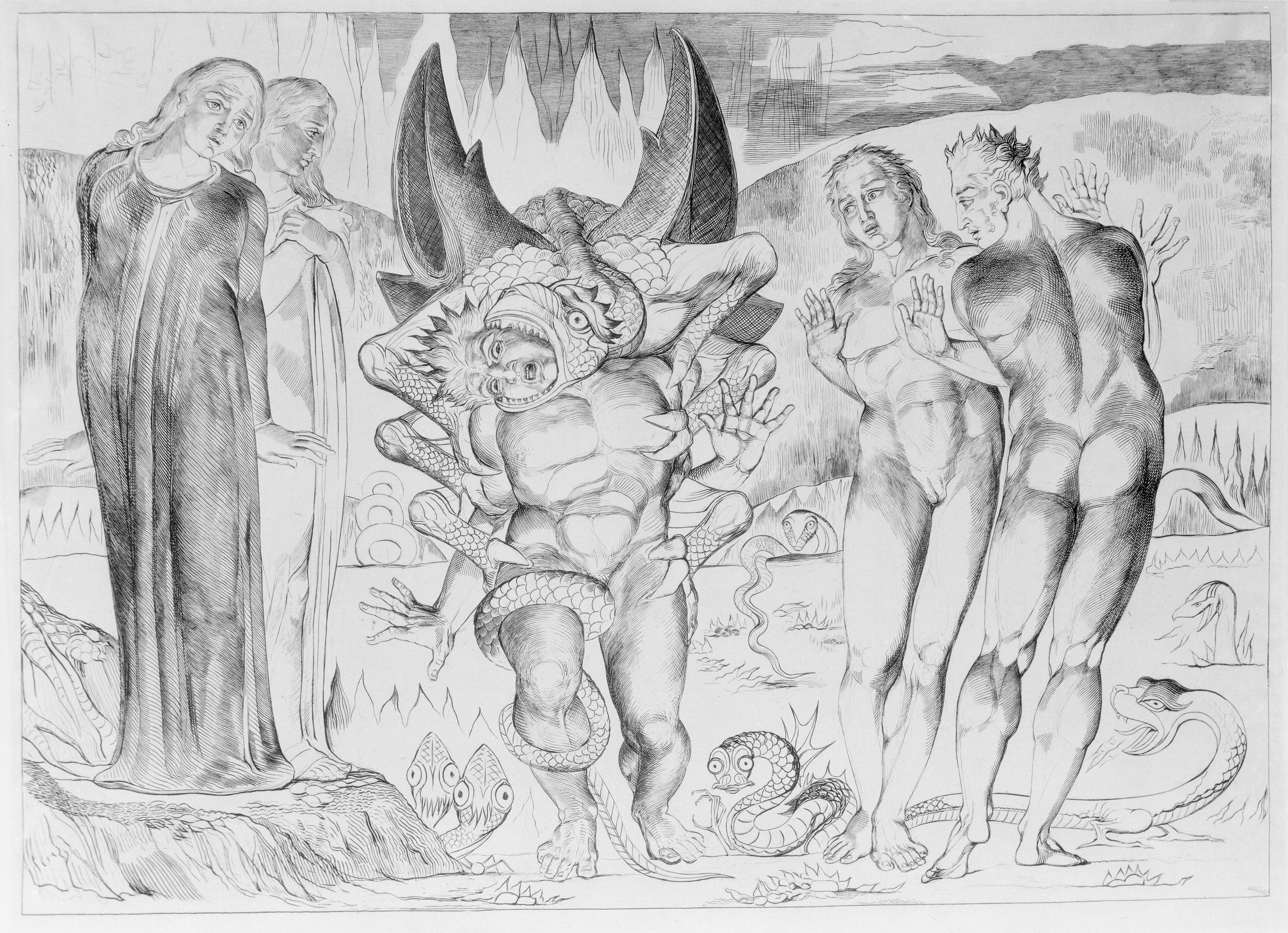 Print; Prints